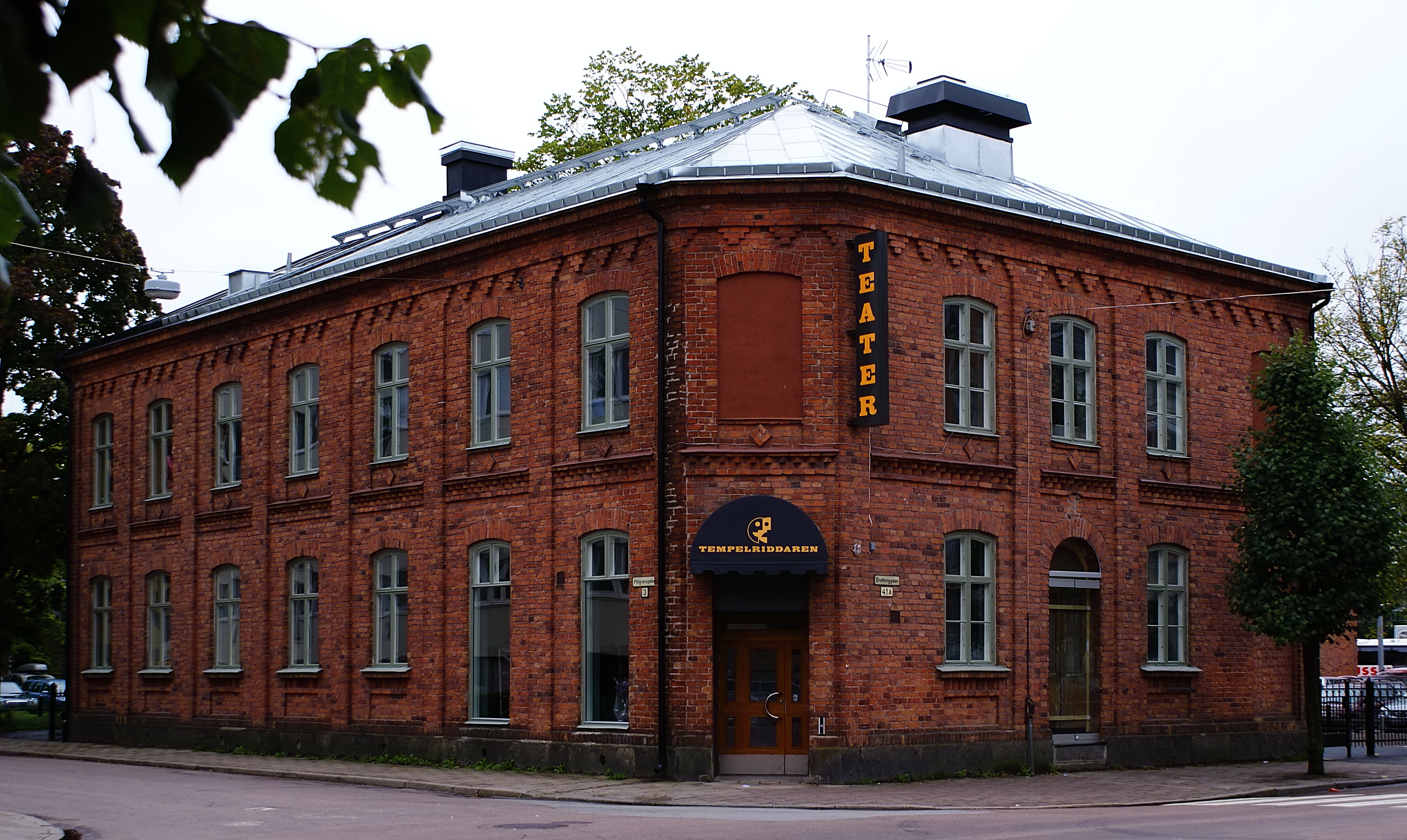 Tempelriddaren (swedish for the knights templar), a theater in Karlstad, Sweden.